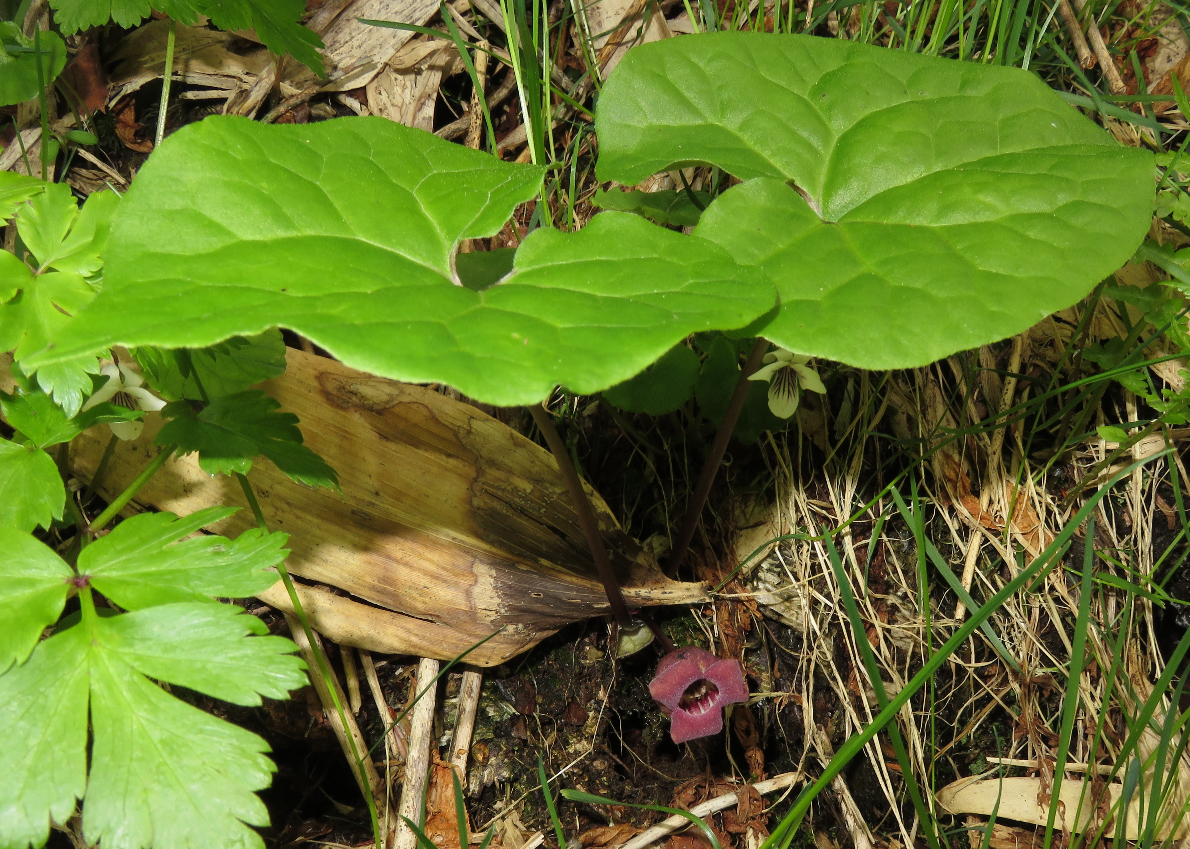 Asarum heterotropoides, Mount Hachimantai, Iwate pref., Japan